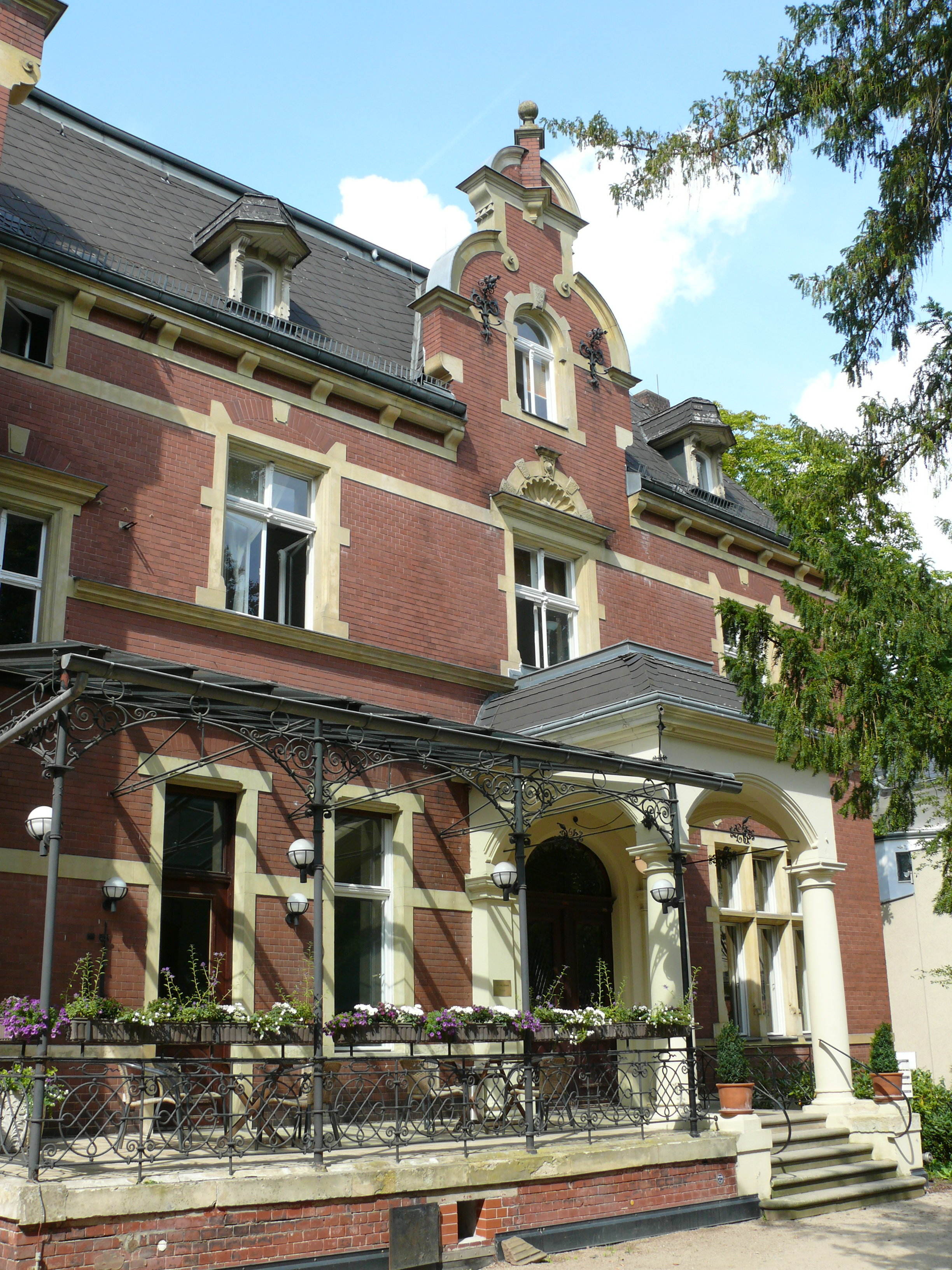 Berlin-Wannsee Am Sandwerder 5 Literarisches Colloquium